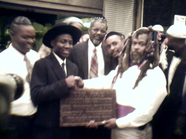 Rabbi Howshua Amariel presents Rabbi Hi Ben Daniel, the head of the Igbo Jewish Community with a plaque.